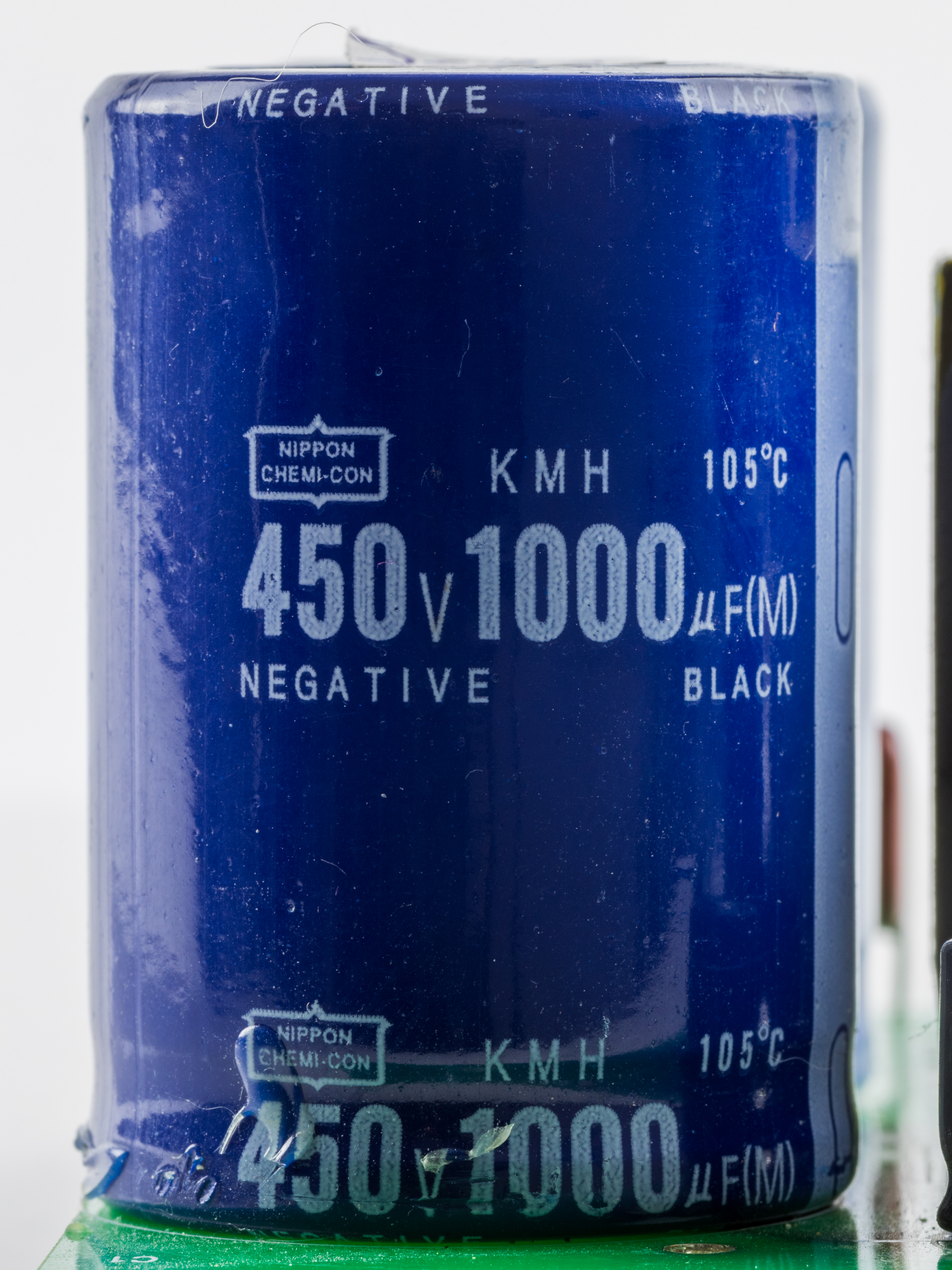 U2 Photon 2004 Moving Flash Light - Nippon Chemi-Con capacitor 450V, 1000µF